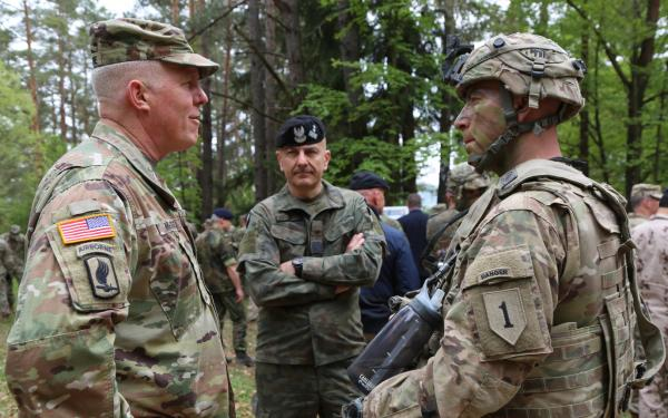 Senior Leaders from around NATO observe actions during JWA 18 in Germany.